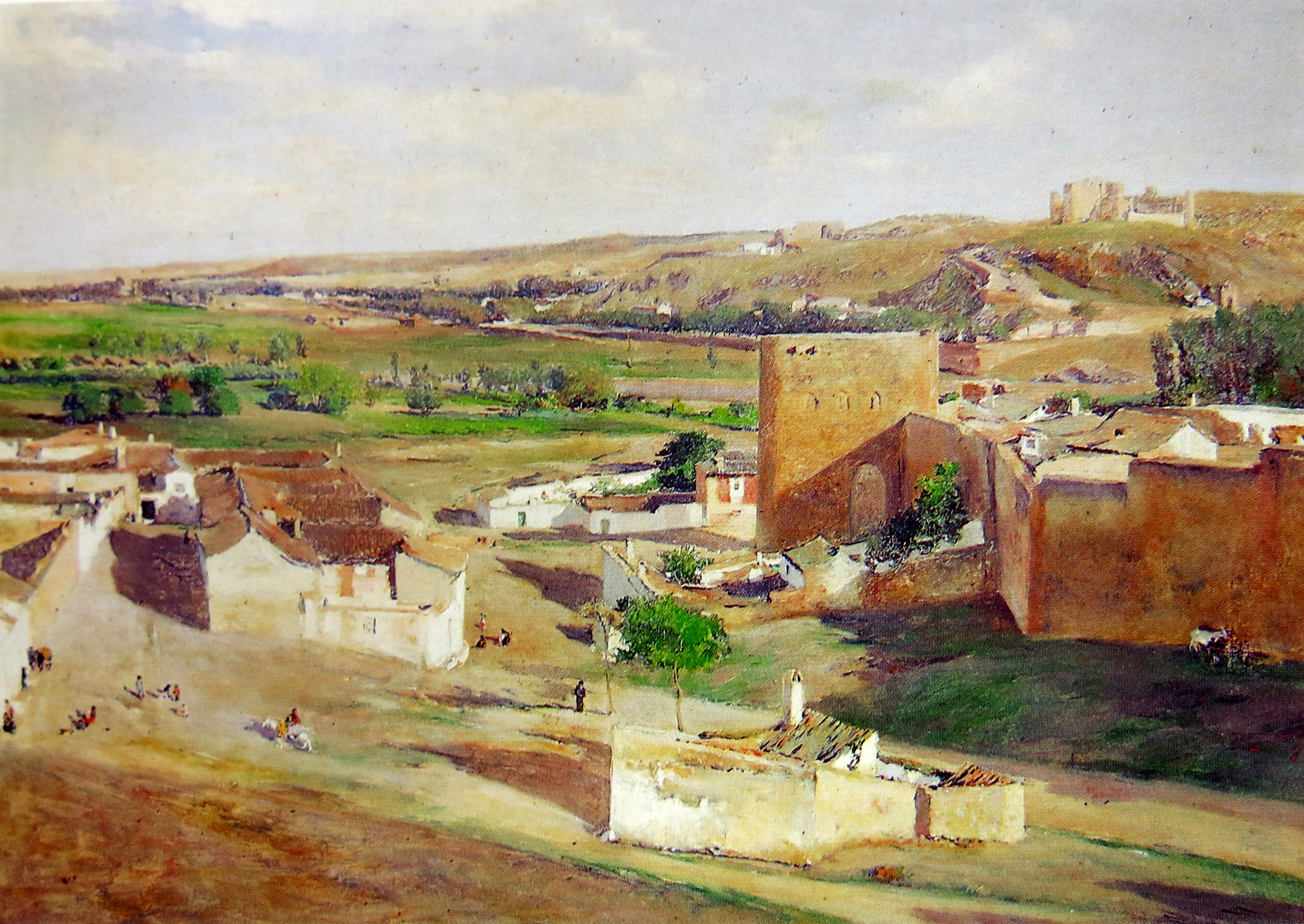 Toledo. El arrabal de Afuera (1901) por Aureliano Beruete. En primer término aparece el Arrabal de Afuera, con numerosas figuras. A la derecha, las murallas, con un fuerte cubo saliente. En segundo plano se ve la vega del Tajo y, al fondo, el Castillo de san Servando.